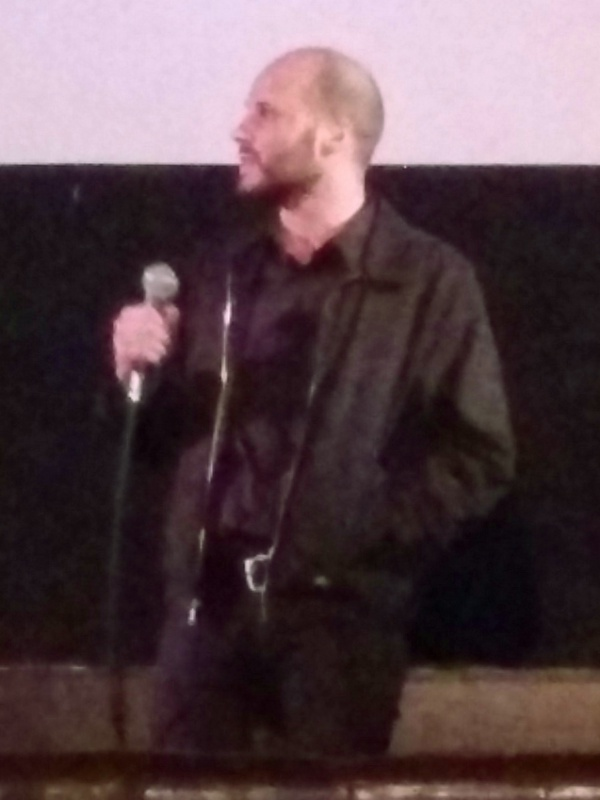 Fabrice Du Welz at a Q&A session for Alleluia at Cinefamily in Los Angeles, California, United States